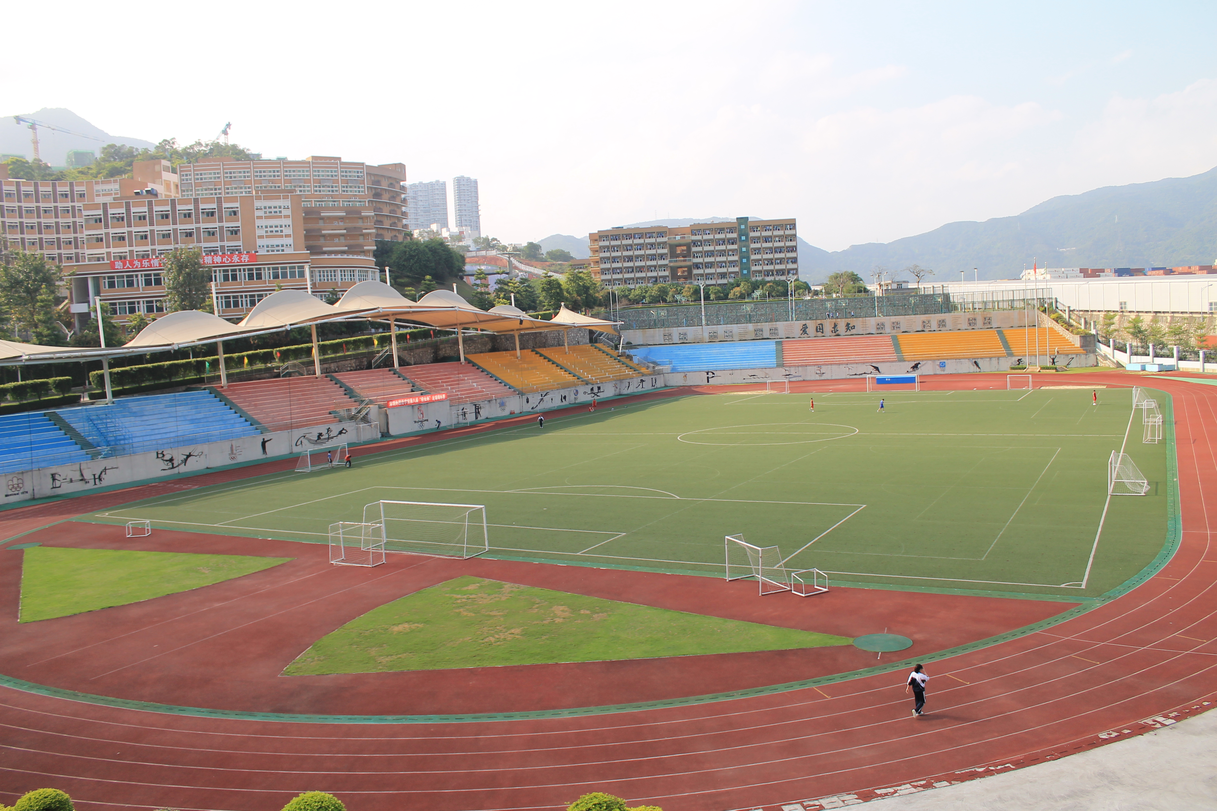 Shenzhen Foreign Language School Sports Arena